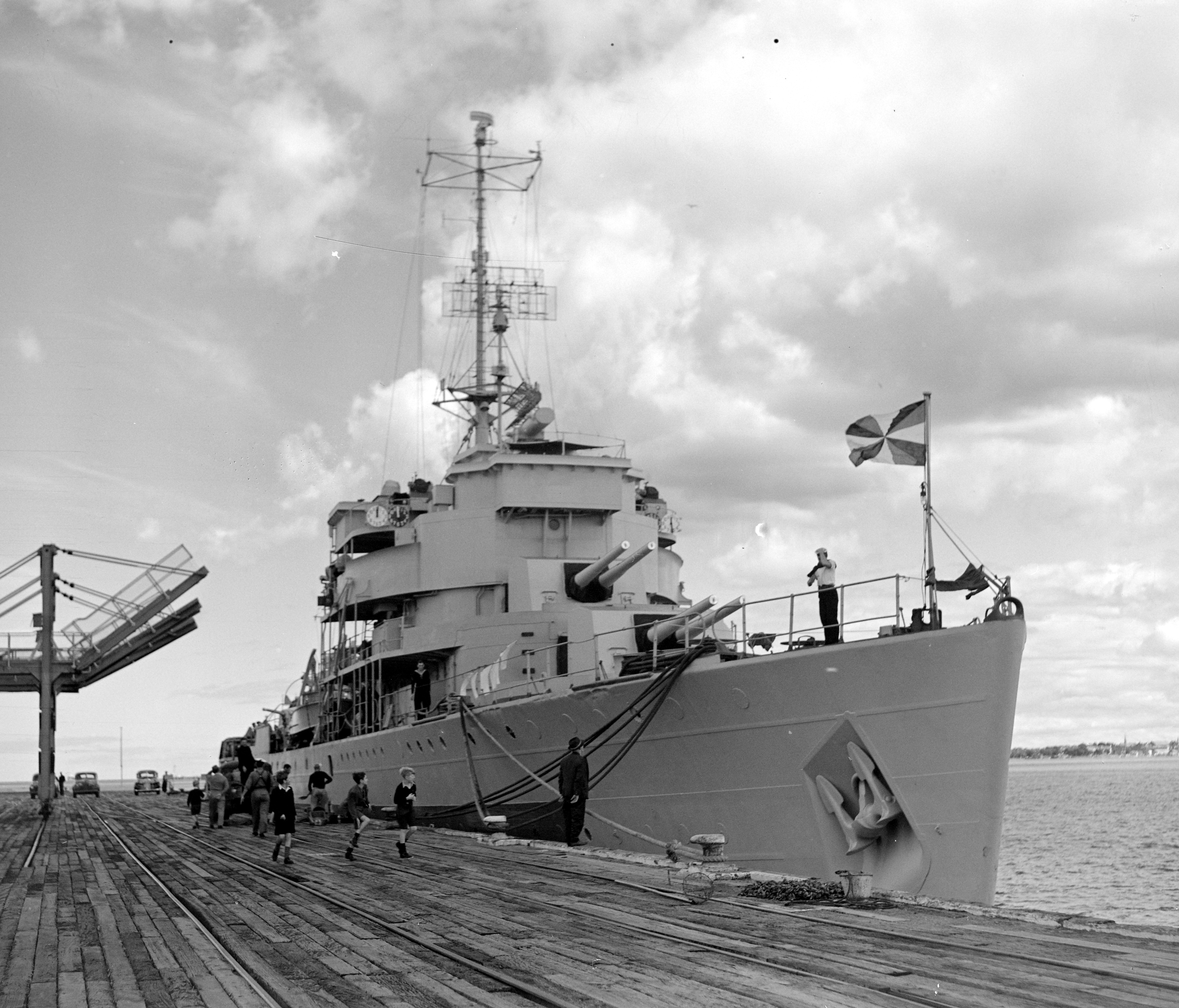 HNLMS Tromp